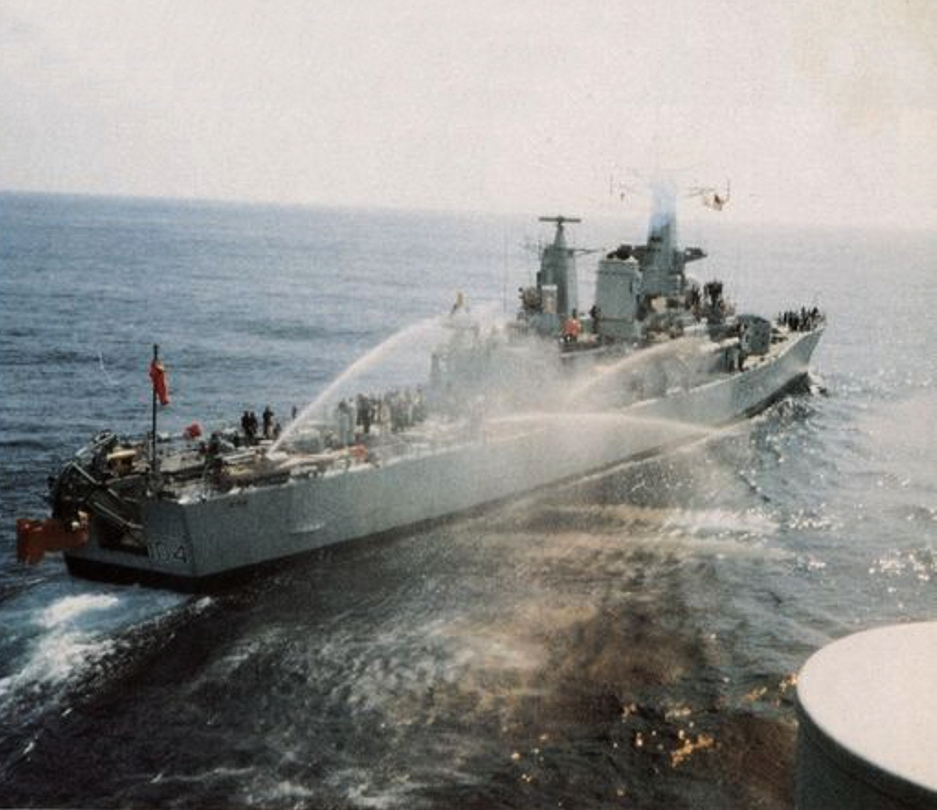 The Royal Navy frigate HMS Dido (F104) underway in the Atlantic Oean in 1983, departing the NATO Standing Naval Force Atlantic (STANAVFORLANT).